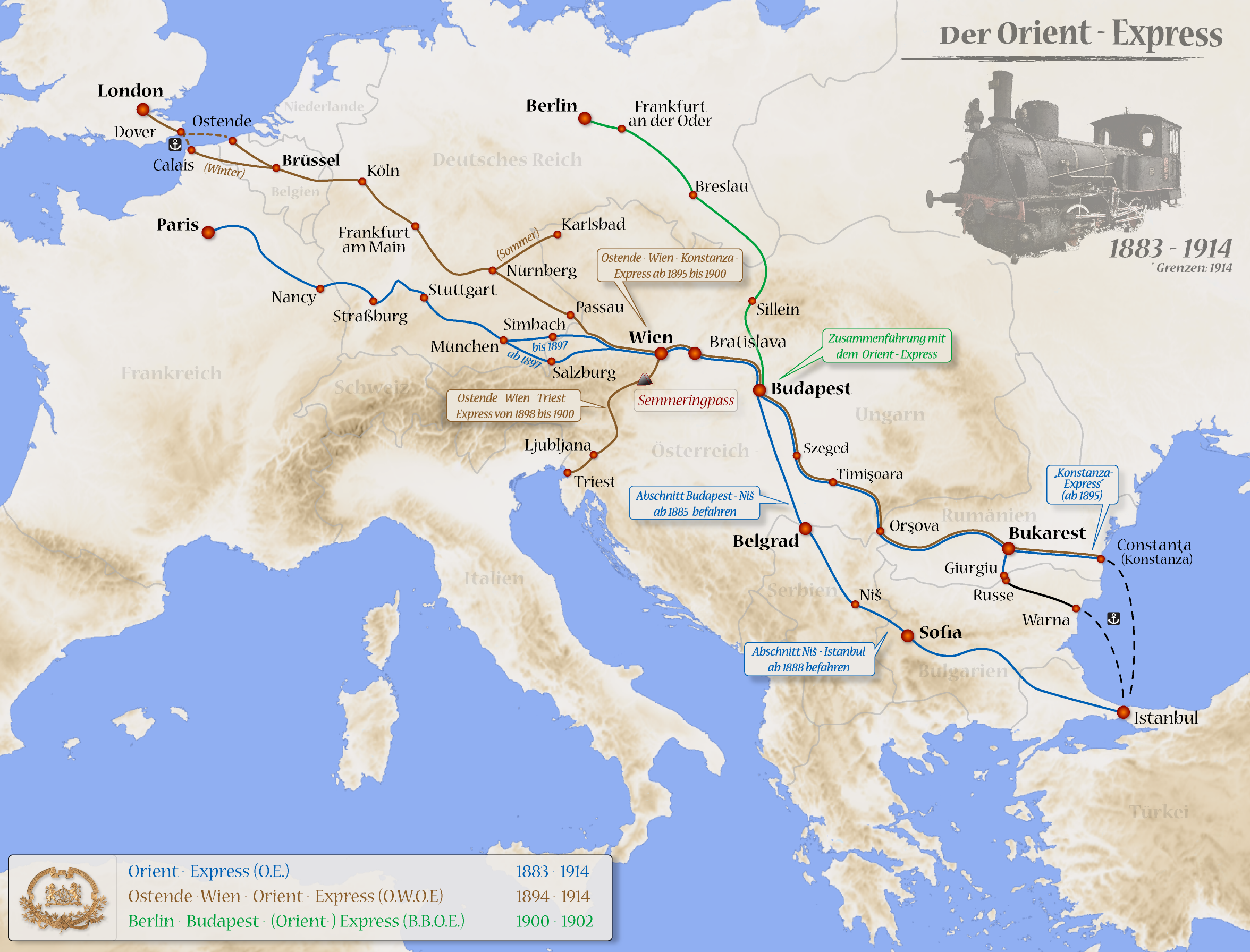 Route of the Orient Express from 1883 to 1914